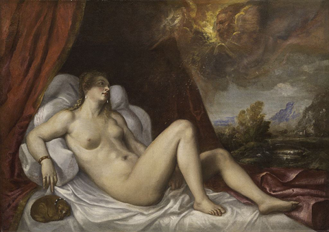 Danae by Titian and workshop, c. 1554 On permanent loan to Art Institute Chicago from Barker Welfare Foundation, New York, NY